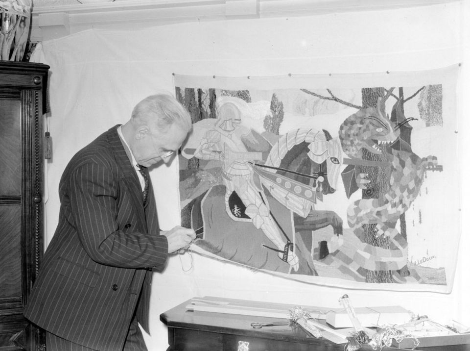 Mr. Ledoux Honoré puts the finishing touches on a tapestry depicting a knight in armor on his horse.